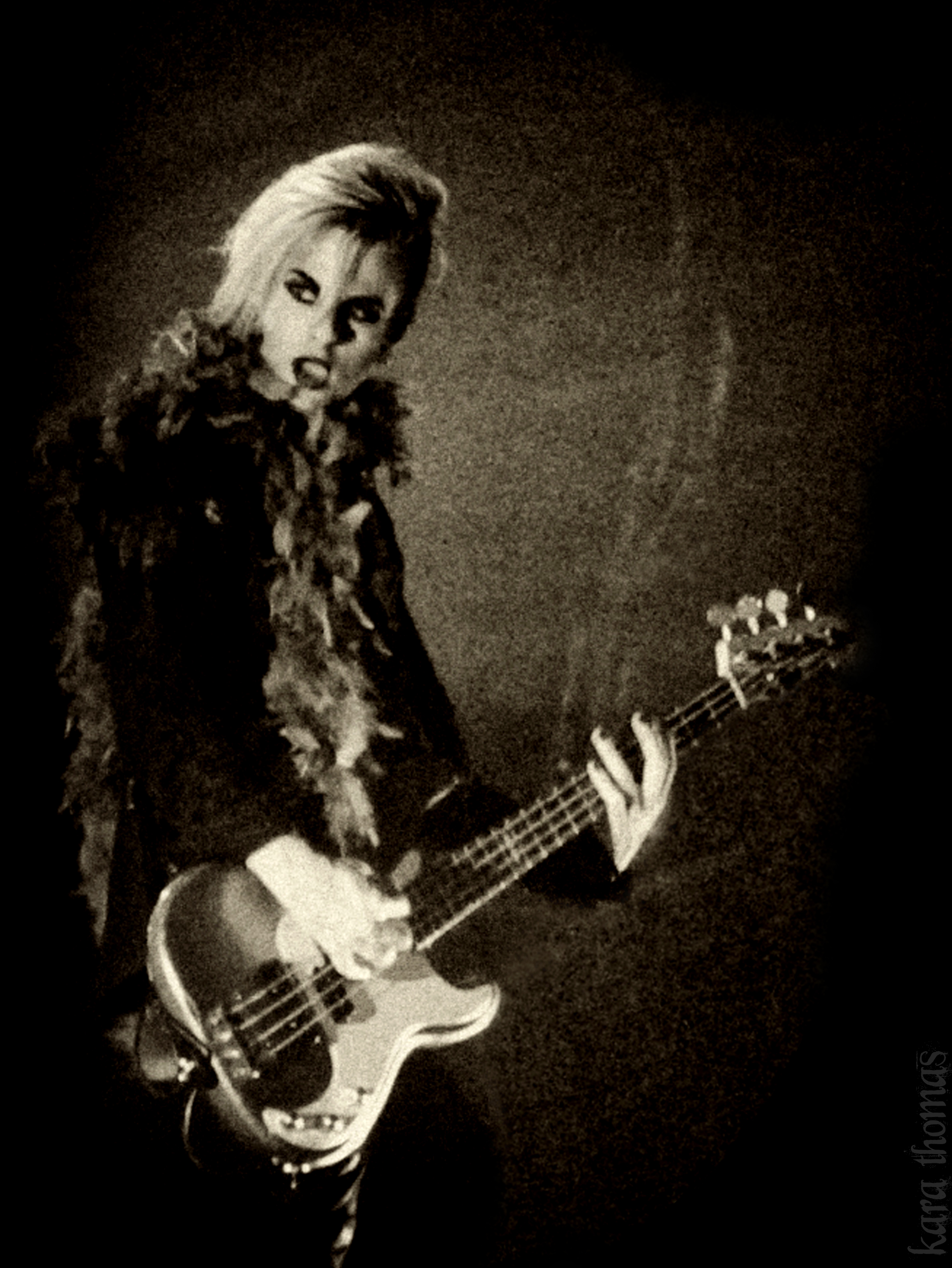 Tommy Joe Ratliff